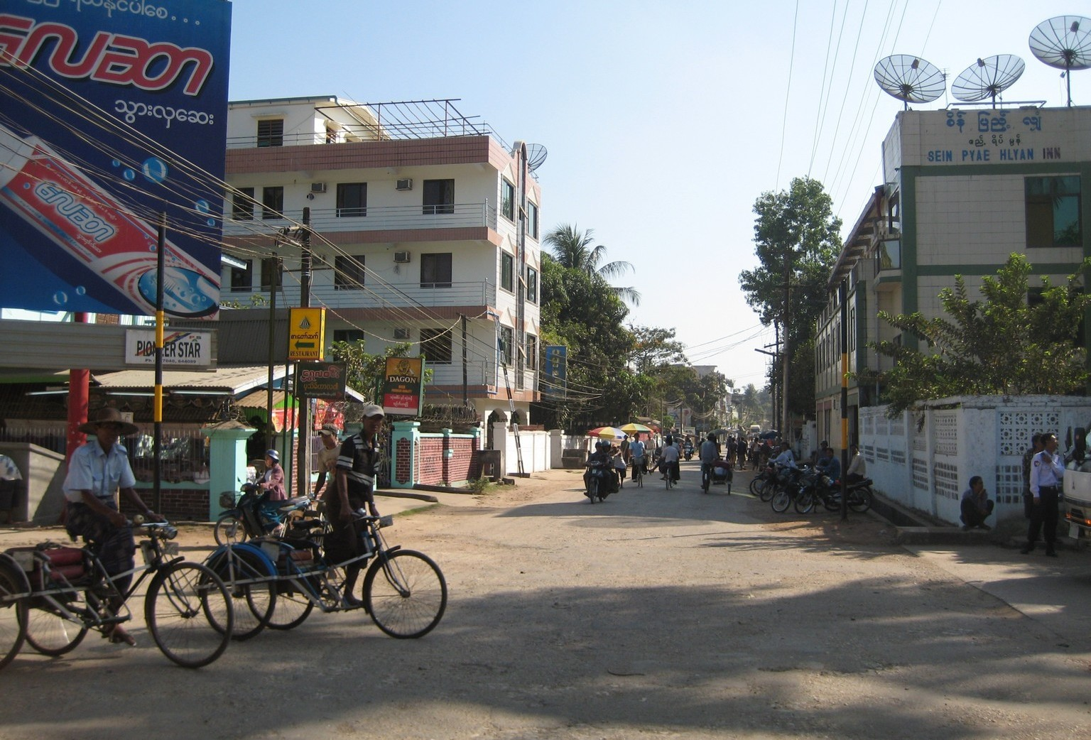 Pathein and Irrawaddy Delta scenery